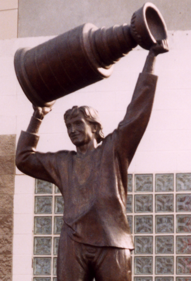 Wayne Gretzky statue erected, after the 1988–89 season, outside of Rexall Place (Edmonton Coliseum). Cropped version of Image:Gretzky statue.jpg.